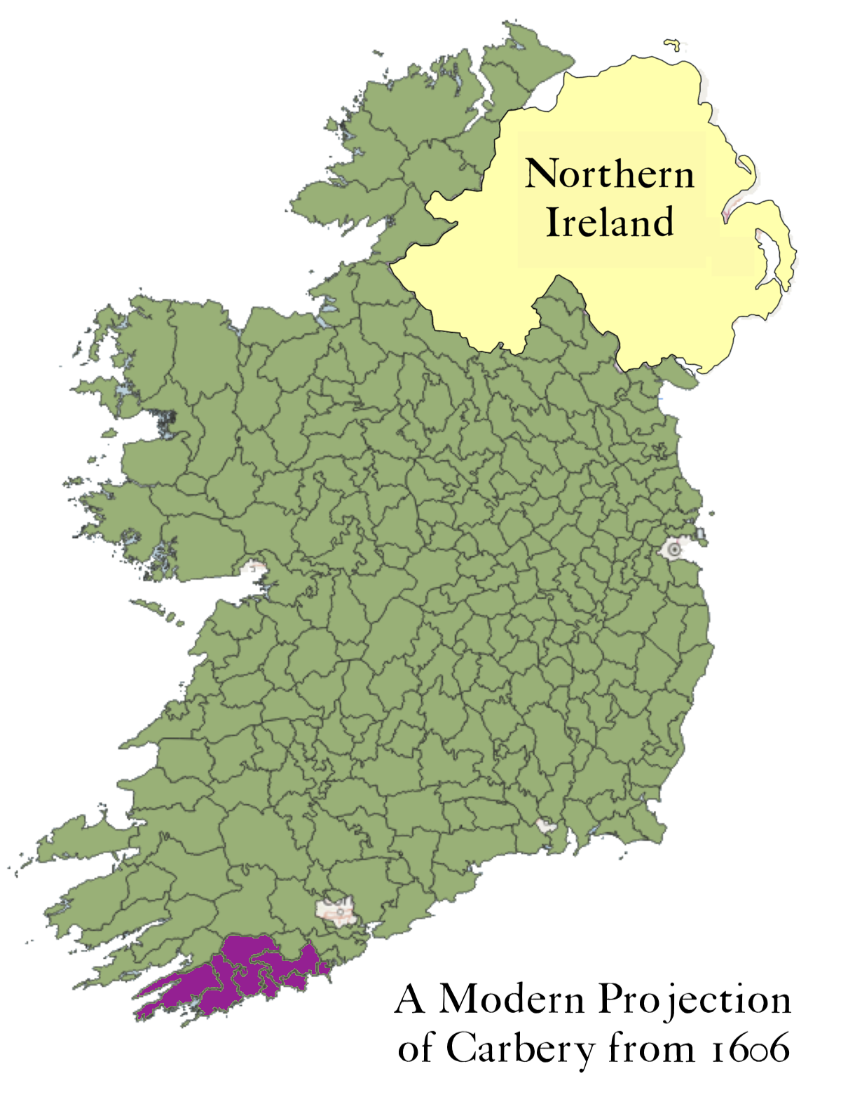 A projection of the map of Carbery, circa 1606, upon a modern map of Ireland and its baronies.